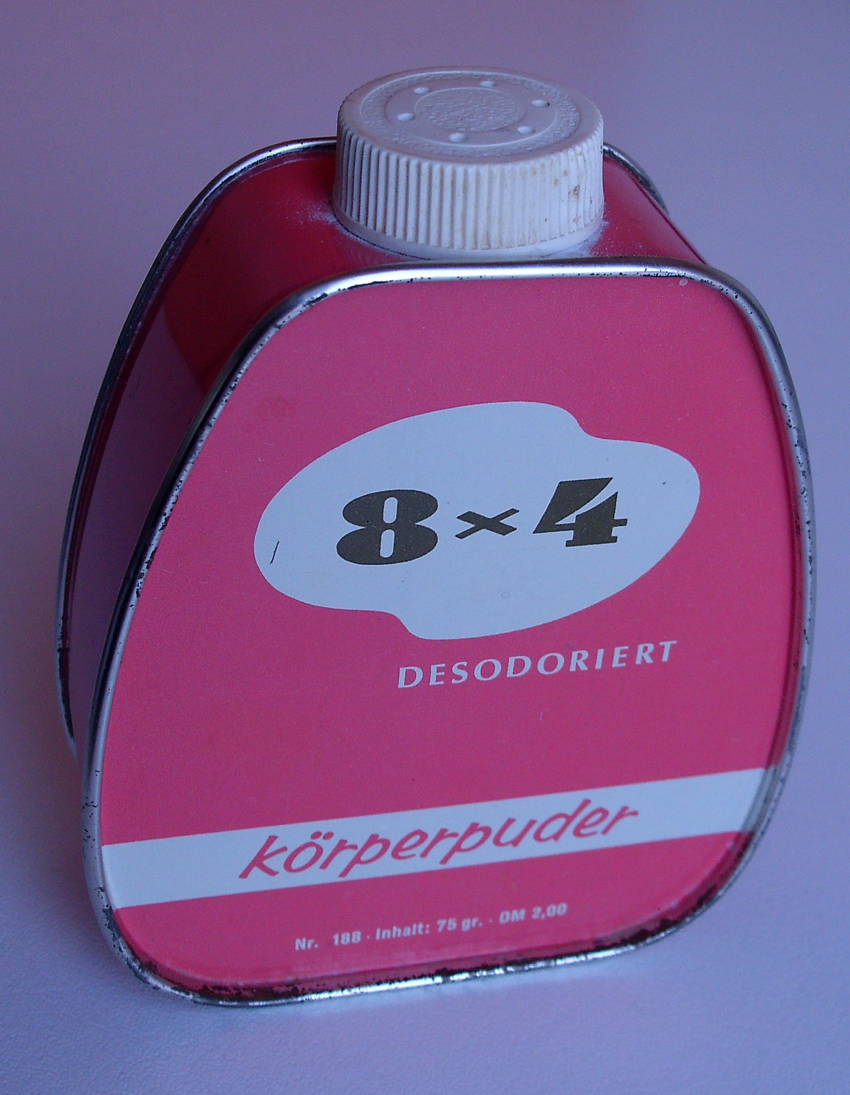 Metal can "8x4 body powder"